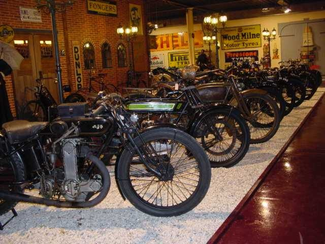 Yesterdays Antique Motorcycles showroon